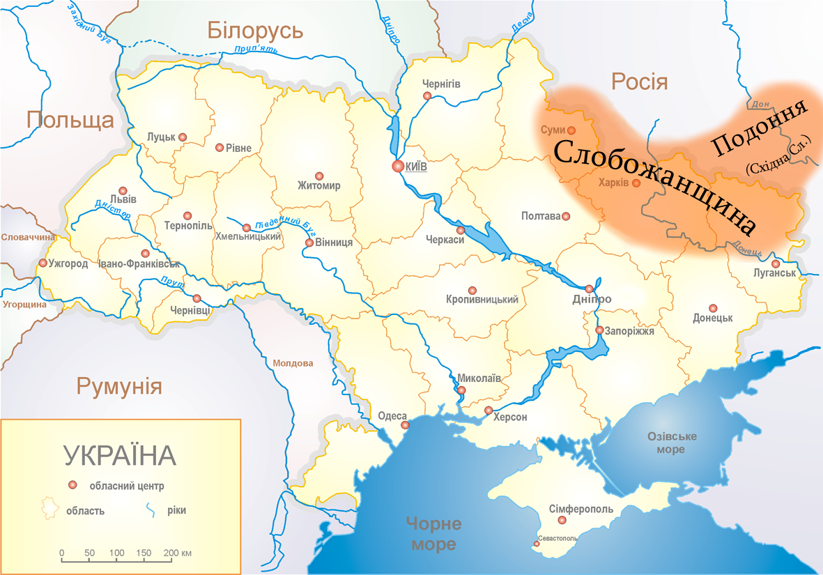 Map of the Sloboda Ukraine and present-day Ukraine.